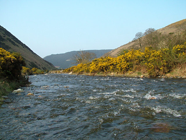 Sulby Glen - Isle of Man. The young Sulby River tumbles across rocks in the glen.